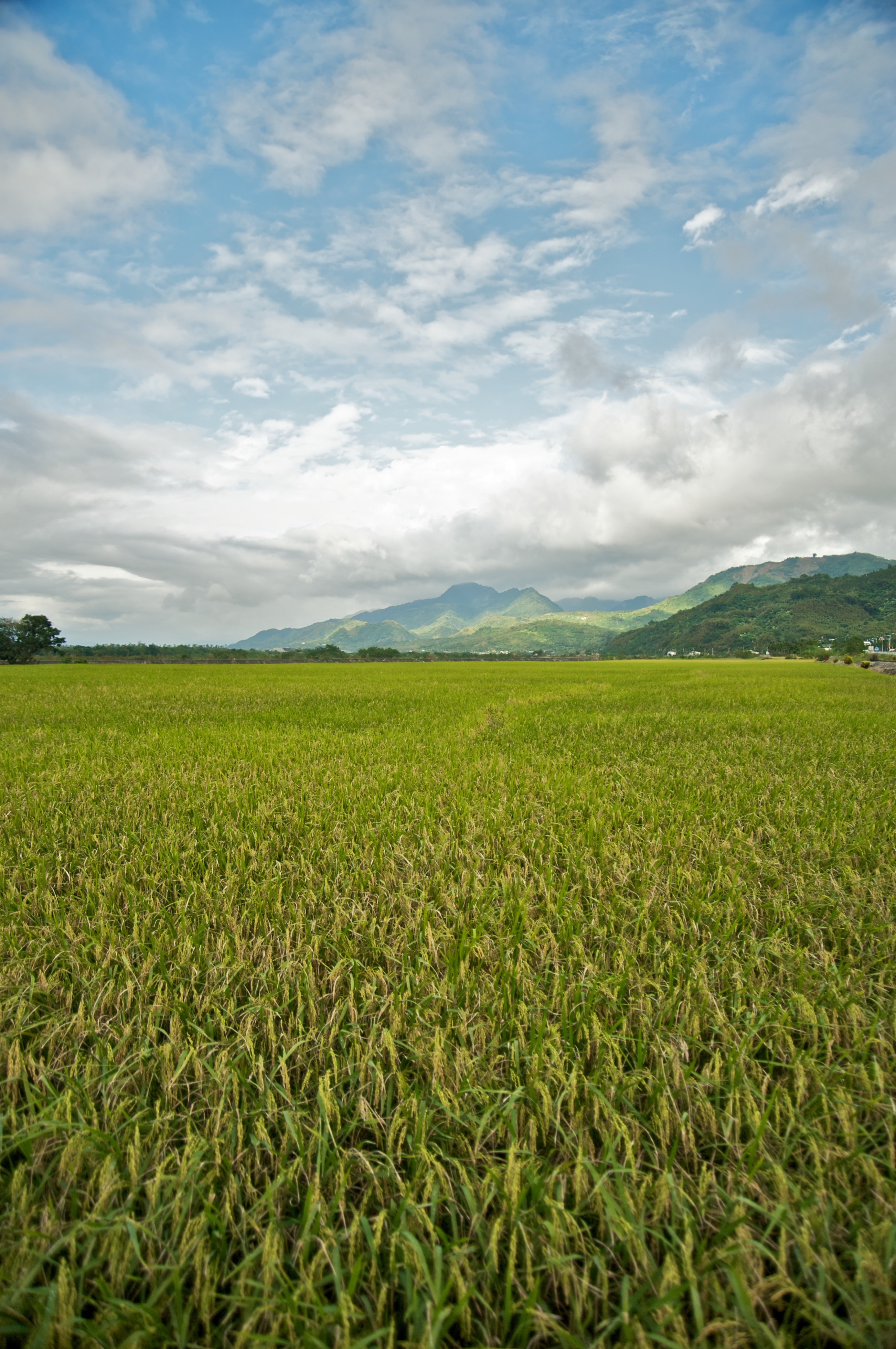 Rice paddy by the Huatung Highway in Taiwan